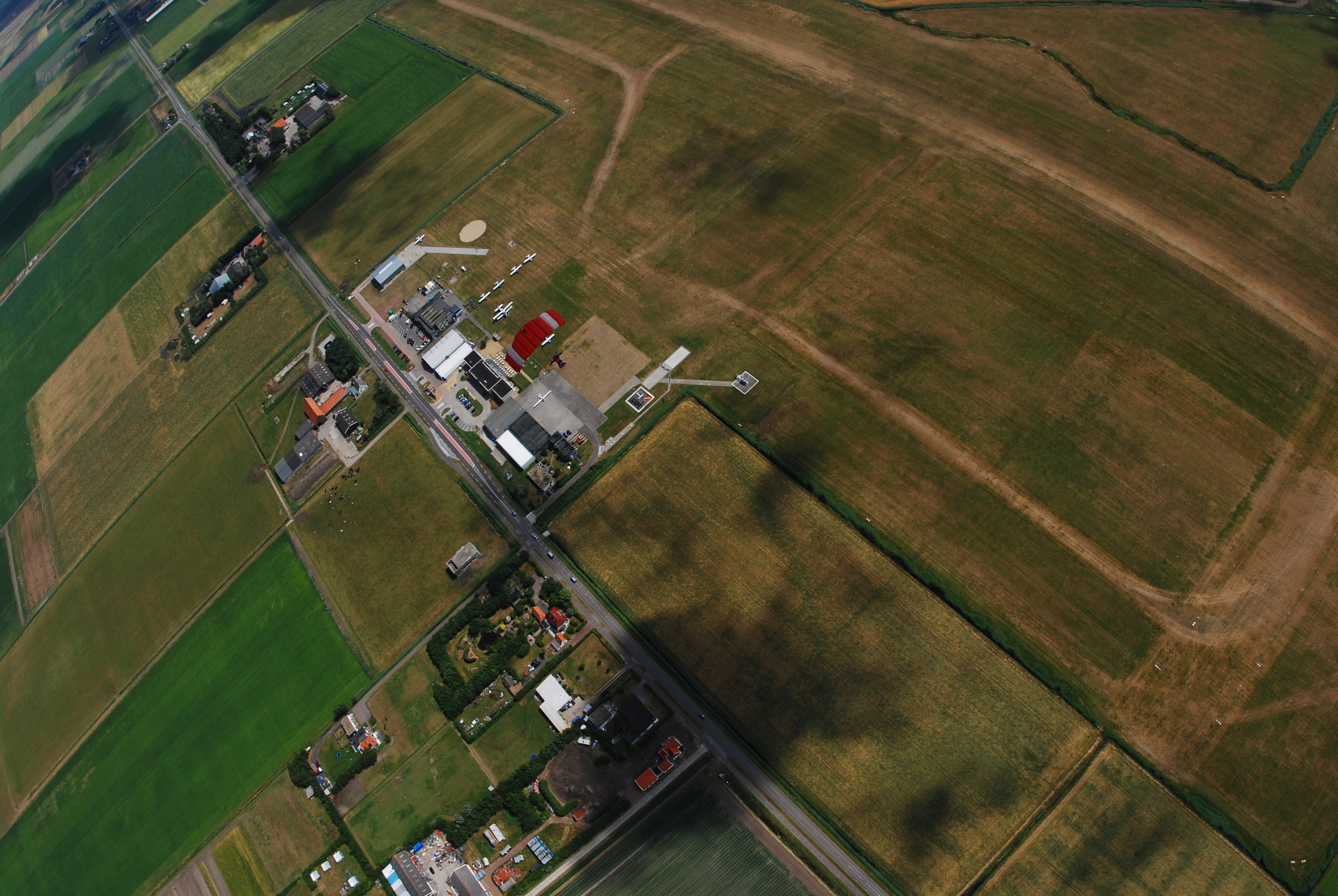 Texel airport, Texel, Netherlands (as seen hanging from a parachute)